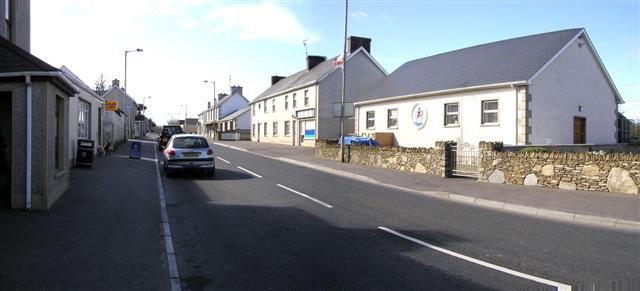 Killen, County Tyrone. Looking up the small main street.